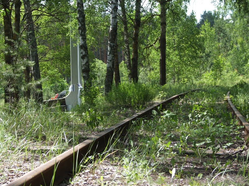 Bronnaya Gora, Berezovskij rajon, Brestskaya oblast, Belarus: Railroad leading to the place, where in 1942 Germans murdered more than 50.000 people, most of them Jews. Left hand one of the monuments dedicated to the murdered.